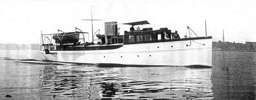 The motor yacht Tamarack prior to her United States Navy service as the patrol vessel